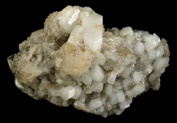 Harmotome Locality: Bellsgrove Mine (Bellsgrove Opencut), Strontian, North West Highlands (Argyllshire), Scotland, UK (Locality at ) Size: 7.7 x 4.8 x 3.9 cm. A classic, old-time specimen of lustrous, pearlescent harmotome crystals to 2.0 cm on mounded matrix from the Bellsgrove Mine at Strontian, Scotland. Harmotome is a rare zeolite group mineral and many of the crystals are cyclic twins, including the largest, prominently placed large crystal. A fine specimen. New ones came out recently in the late 1990s, but the older ones, to my mind, are better as they have more robust and isolated crystals as you see here. Ex. Jamie Bird Collection, a California collector from the 1960s-1980s.